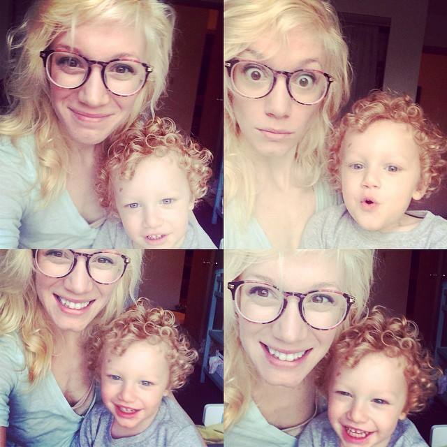 aftonandmama